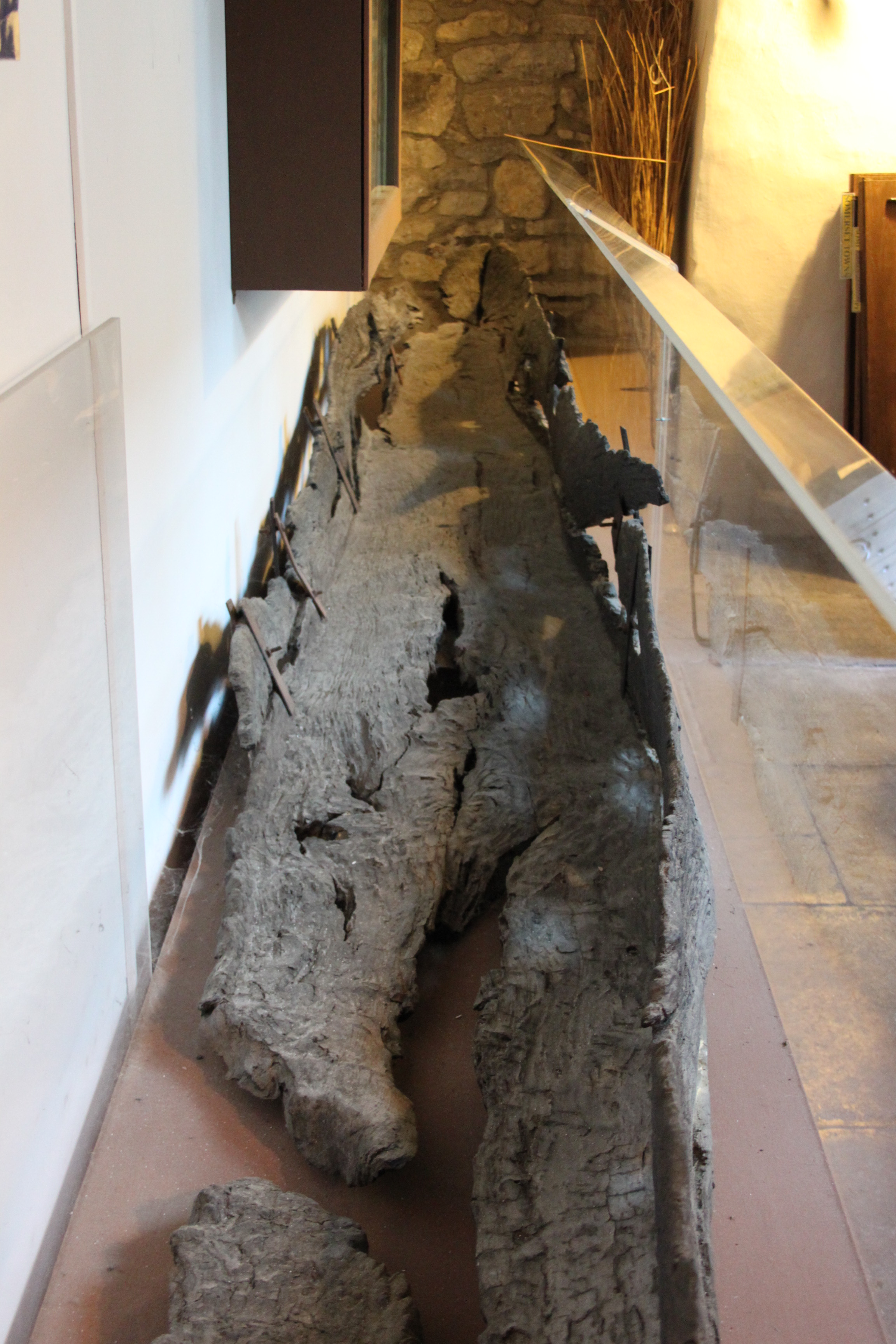 Log Boat from the Somerset Levels on display at the Glastonbury Lake Village Museum